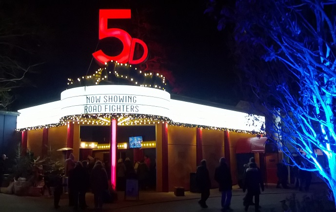 Tivoli Friheden, Aarhus